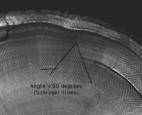 From